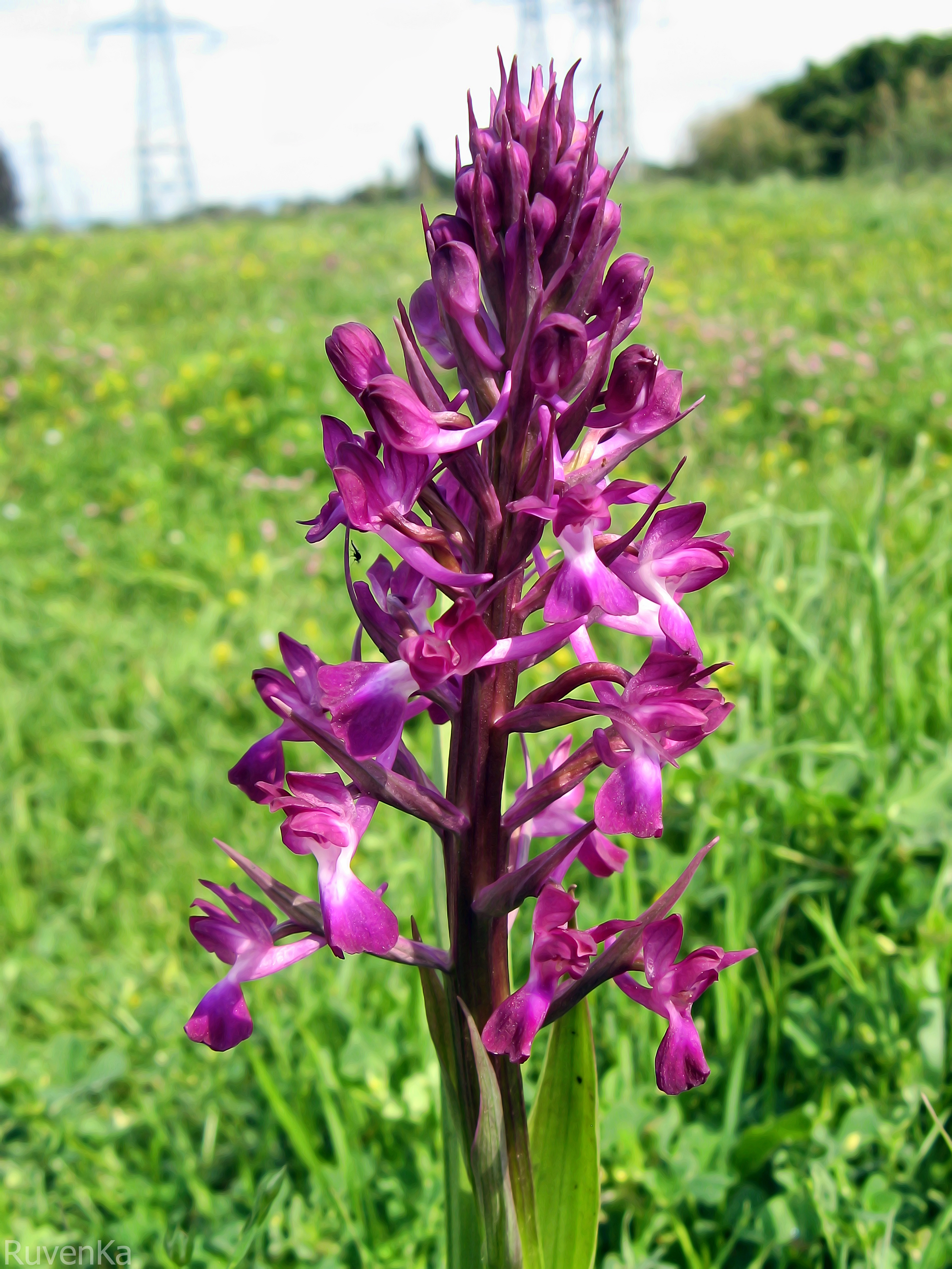 Orchis dinsmorei in Israel